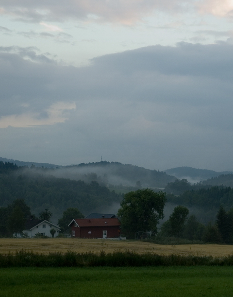 Fog in Røyken, Norway My own photography, Kjetil Lenes